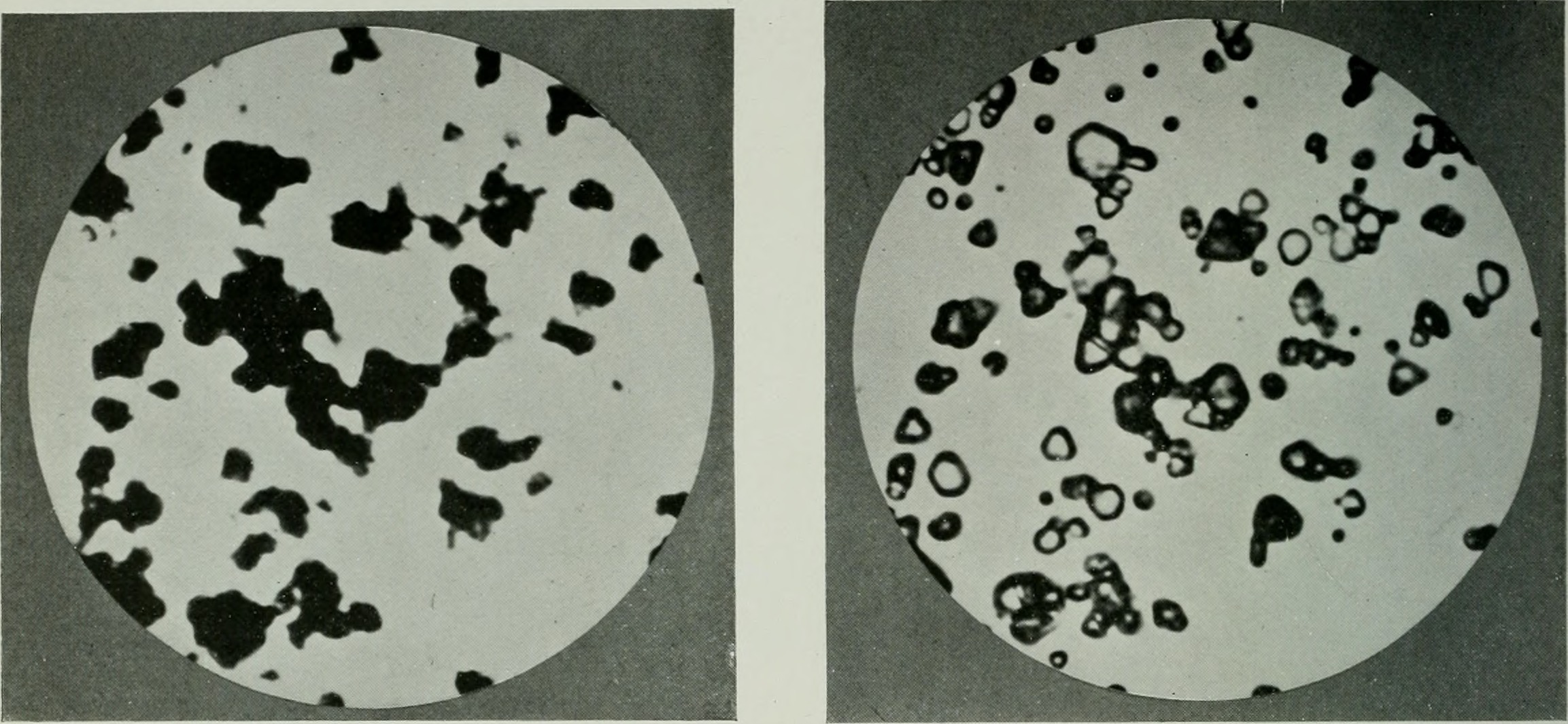 Title: The American journal of roentgenology, radium therapy and nuclear medicine Year: 1906 (1900s) Authors: American Radium Society American Roentgen Ray Society Subjects: Radiotherapy X-rays Publisher: Springfield, Ill. C.C. Thomas Text Appearing Before Image: Fig. 3-b. Silver Nitrating Room. 136 Manufacture of Roentgenological Films and Plates prepared with a view toward having it assensitive to .I-rays as possible, its sensitive-ness to ordinary light being of no specialimportance. The glass must be carefullyAvashed and put in proper condition for be-ing coated with the sensitive emulsion. After in the case of either films or plates for theirentire life history. Temperatures over 70°F. should be avoided where possible, as wellas excessive humidity. These two are thegreatest foes to emulsion keeping. When one considers, however, the vast Text Appearing After Image: Fic. 4. Silver Bromide Crystals in Emulsion. coating, the drving is conducted under con-ditions similar to those used for dryingfilms. There must be a constant drying rate,otherwise a mark will show in the final neg-ative, and it is needless to say that theremust at all times be absolute freedom fromcontamination in the air in the coating, dry-ing and storage rooms. This condition, of course, also holds good Fig. Crystals Shown in Fig. 4 DevelopedTO Metallic Silver. strides made in photographic science sincethe days of the old wet plate—only a fewscore vears ago—by concerted scientificefi:orts, one cannot but feel that, with theeven greater efforts now applied, stimulatedby its war prominence as a science, photog-raphy in general, and roentgenologicalphotography in particular, will give rise tomanv new possibilities. FLUOROSCOPIC EXAMINATION IN INJURIES TO THE HEAD By M. WILLIAM CLIFT, M.D.Late Major, M. C, U. S. A.,; Instructor in Roentgenology, A. E. F. FLINT, MICH. * I HE head